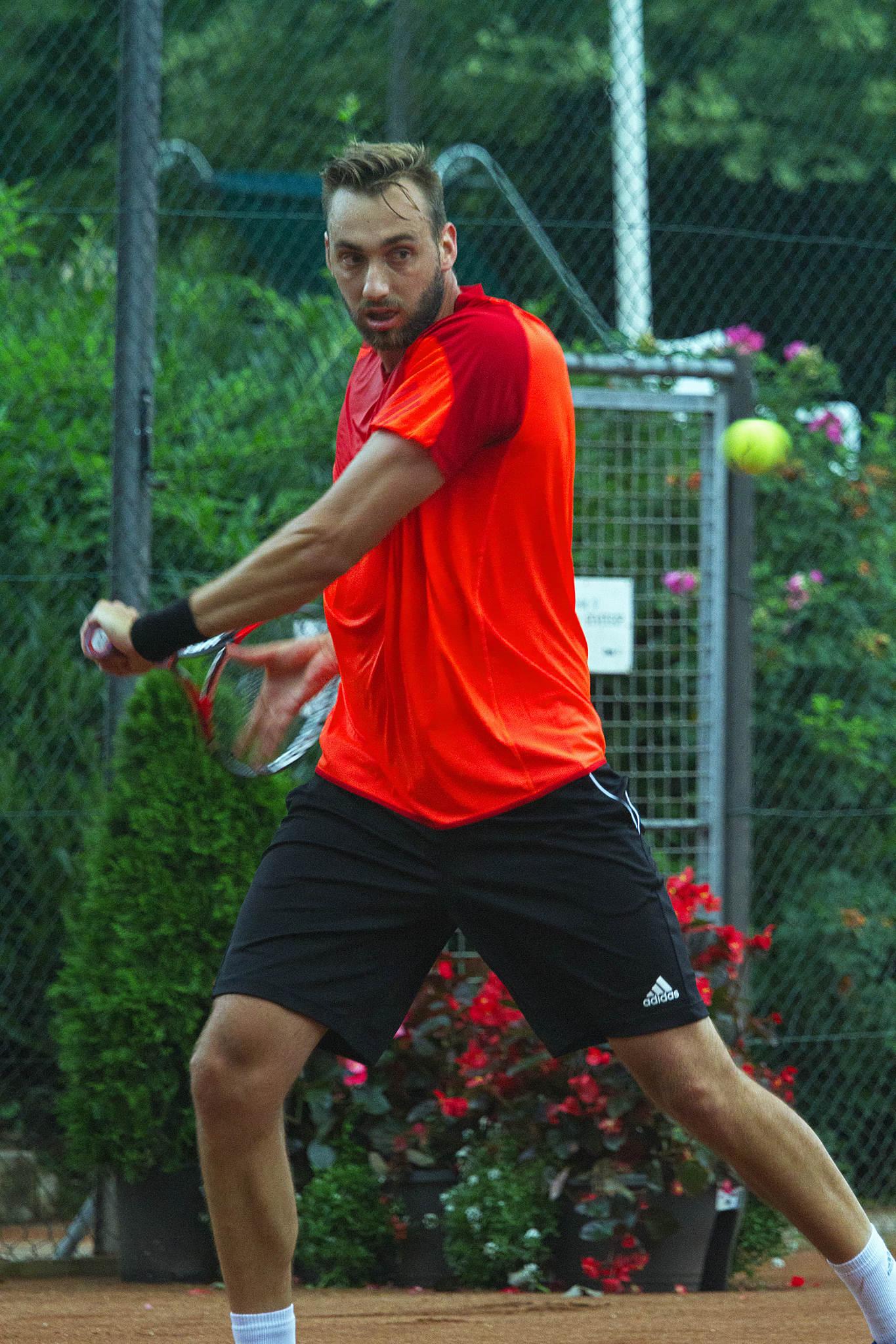 Dutch tennis player Thomas Schoorel at the Parker Hannifin Open tournament in Oldenzaal, The Netherlands.